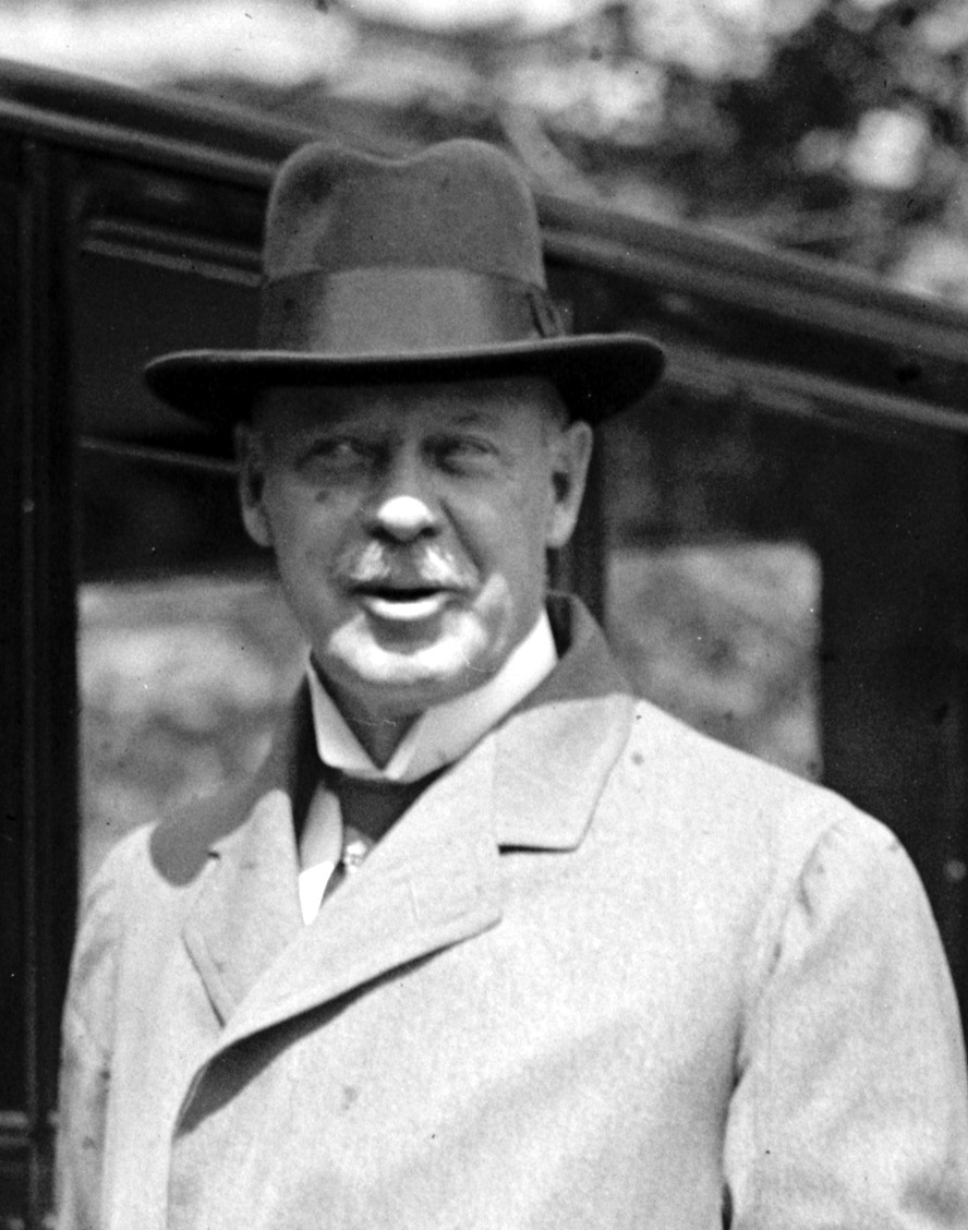 Gen. Herman Wrangel